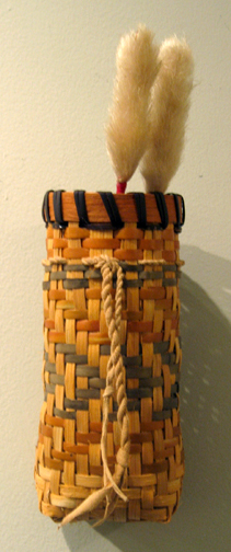 Rivercane quiver and bull thistle-down blowgun darts, by Shawna Morton Cain (Cherokee Nation) of Stilwell, Oklahoma